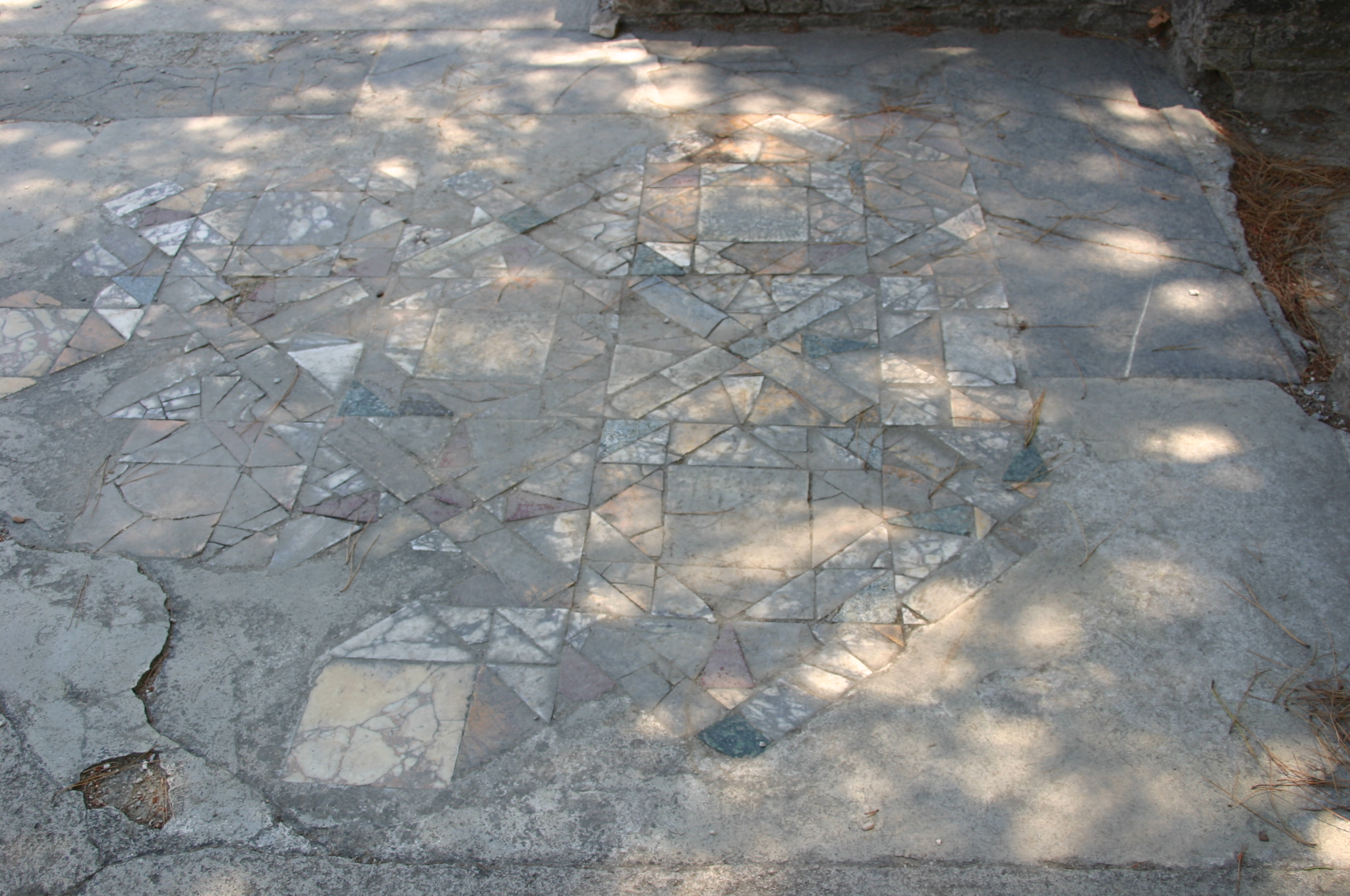 Roman floor mosaics at Vaison-la-Romaine